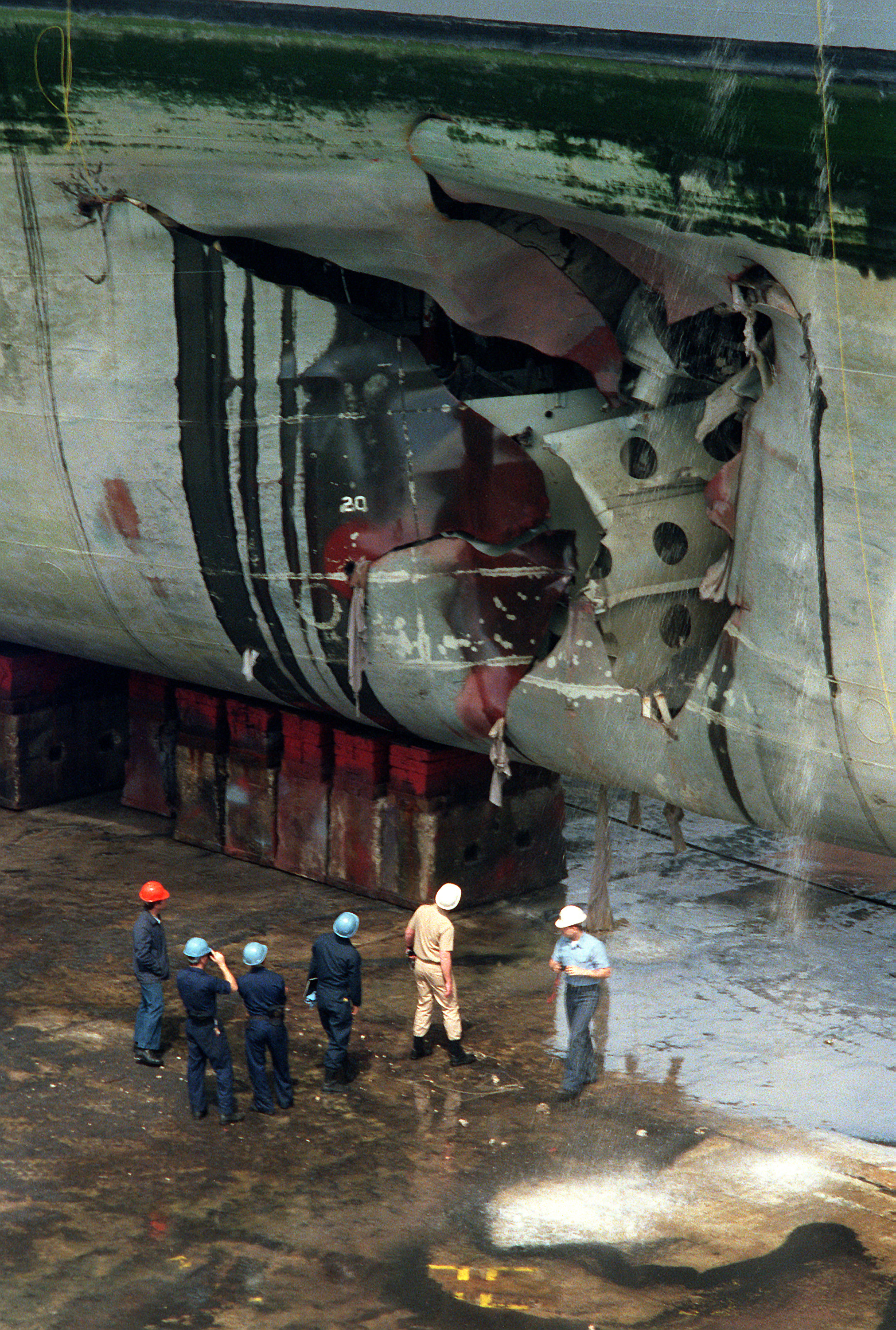 Repair crews inspect the hold that was ripped open in the hull of the amphibious assault ship USS TRIPOLI (LPH-10) when the ship struck an Iraqi mine. The TRIPOLI, now in dry dock for repairs, hit the mine on February 18 while serving as a mine-clearing platform in the northern Persian Gulf during Operation Desert Storm. The ship was able to continue operations after damage control crews stopped the flooding caused by the explosion.